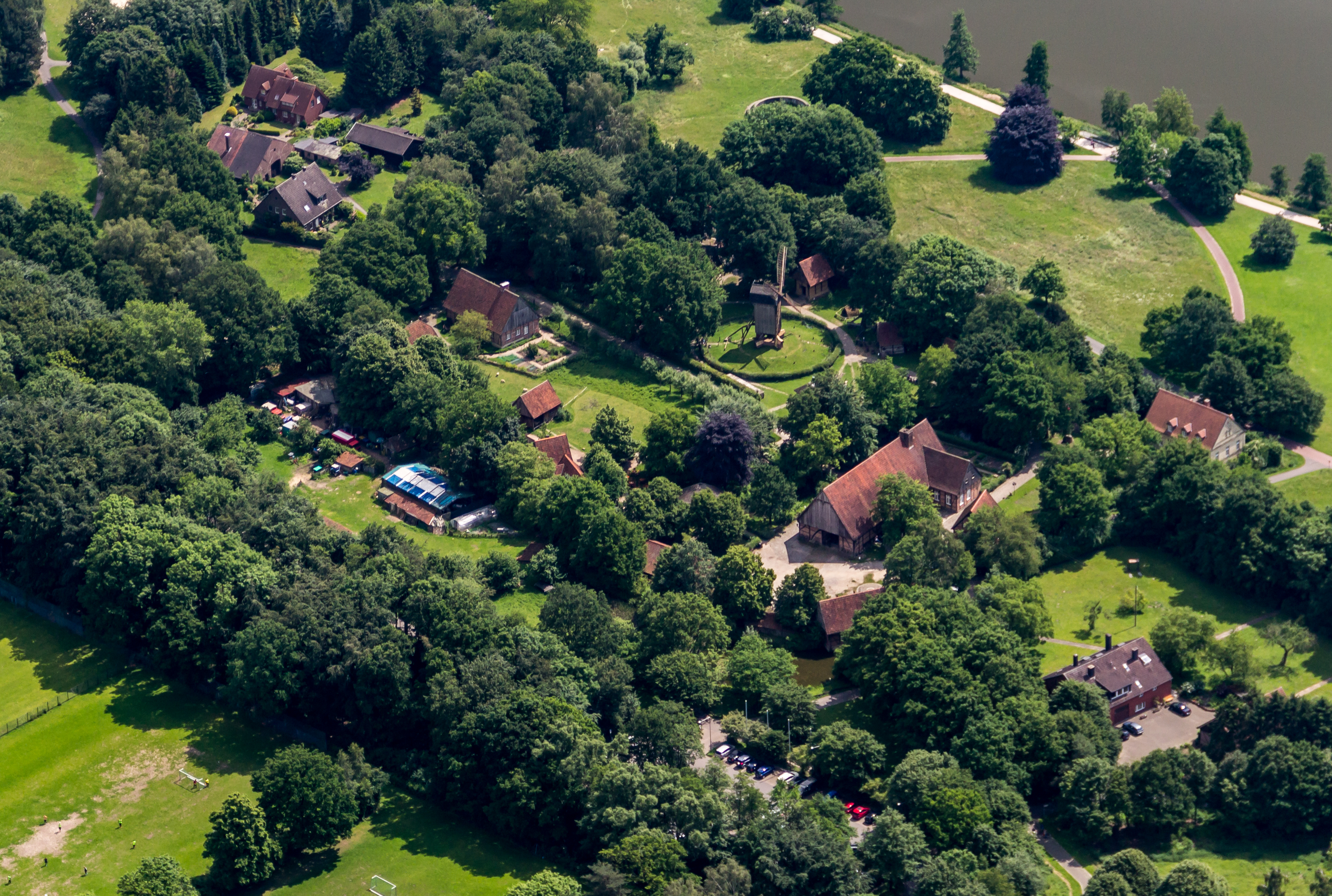 Open air museum Mühlenhof, Münster, North Rhine-Westphalia, Germany